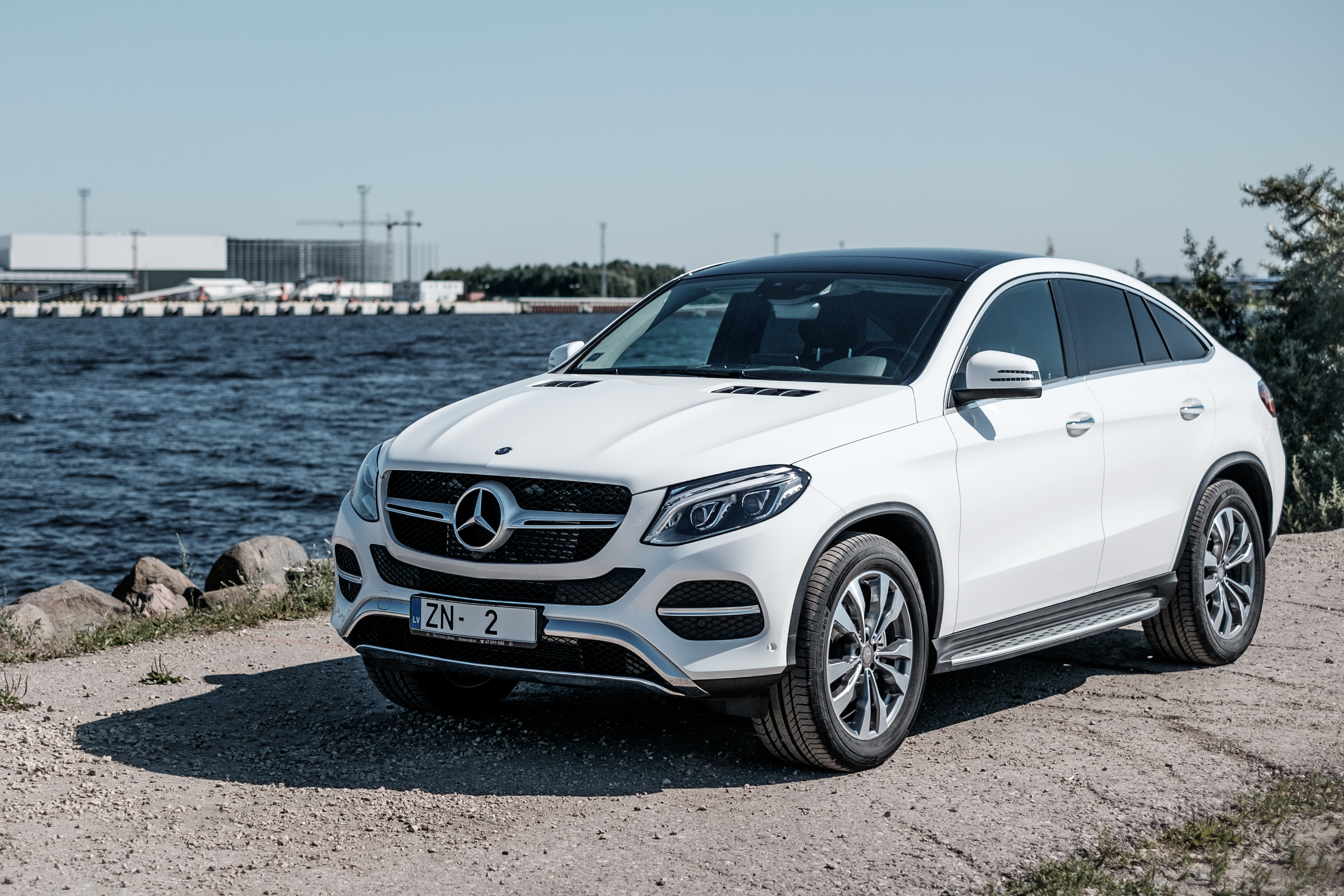 Mercedes GLE Coupe